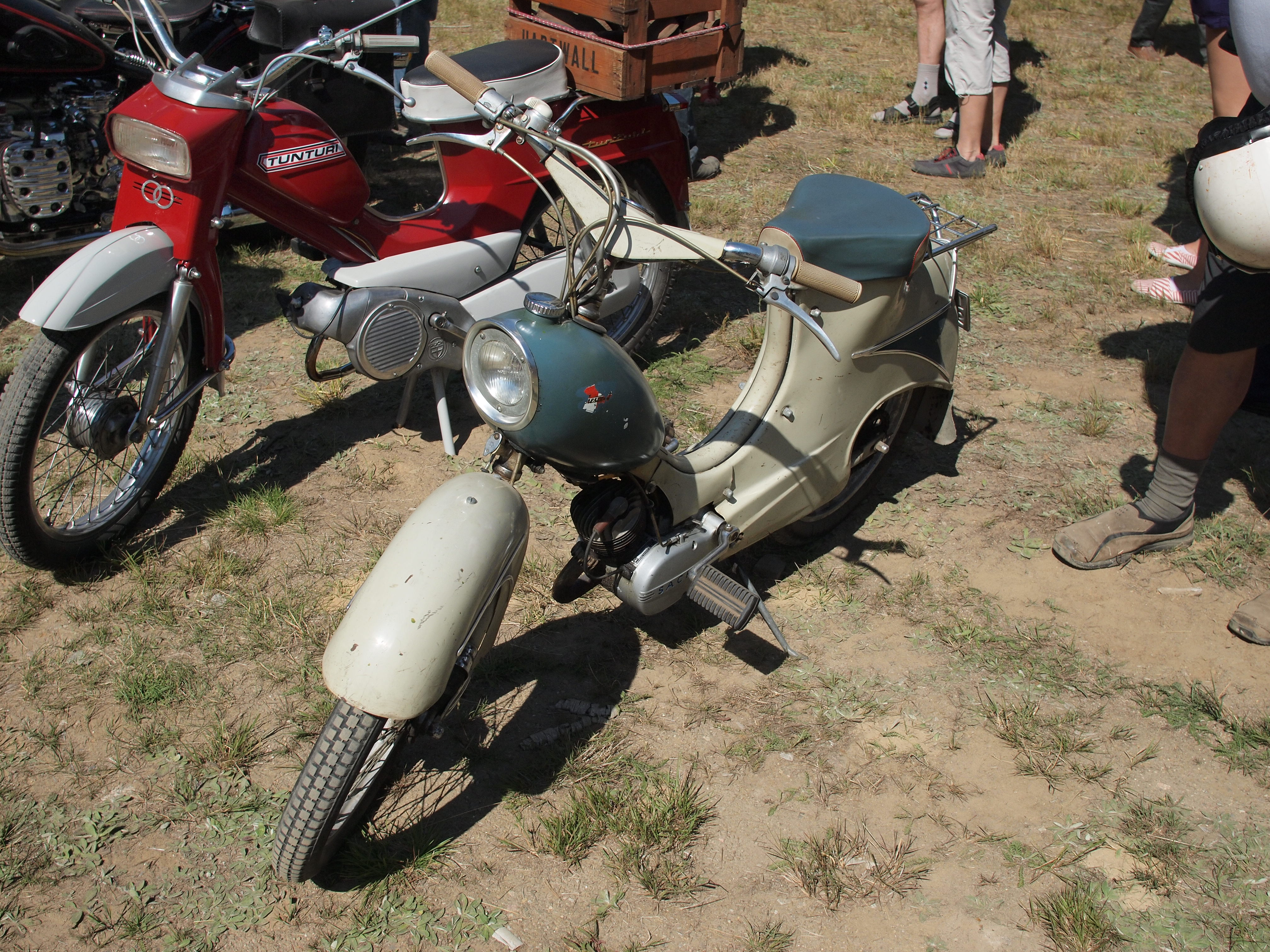 Crescent 2000 moped from 1958. Photographed in Lappeenranta, Finland.